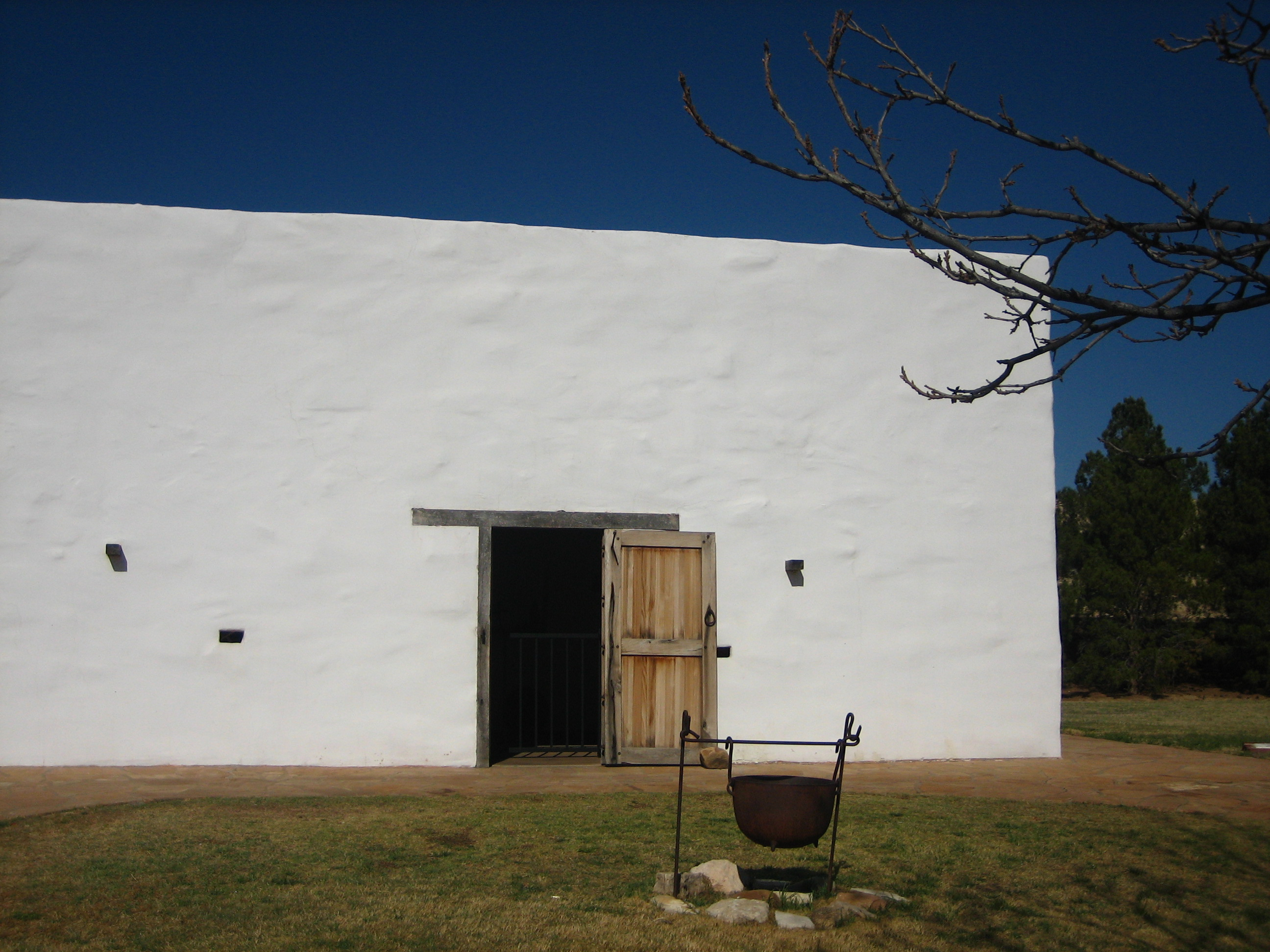 Los Corralitos Building at the National Ranching Heritage Center. At Texas Tech University in Lubbock, Texas.